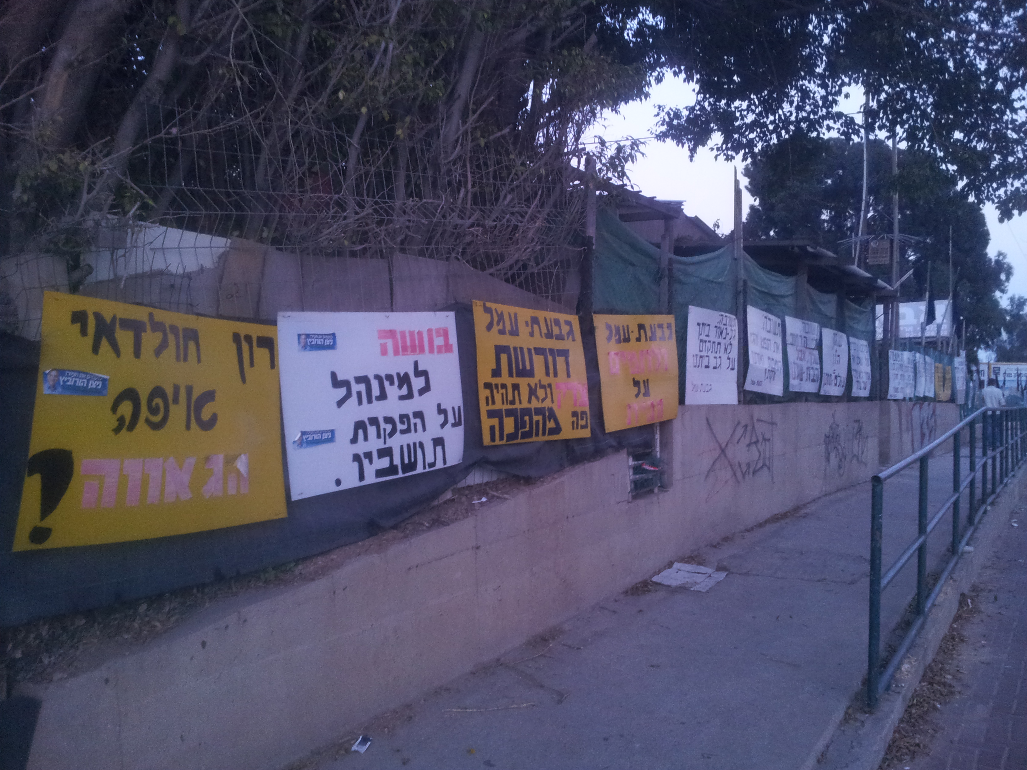 Giv'at Amal Bet